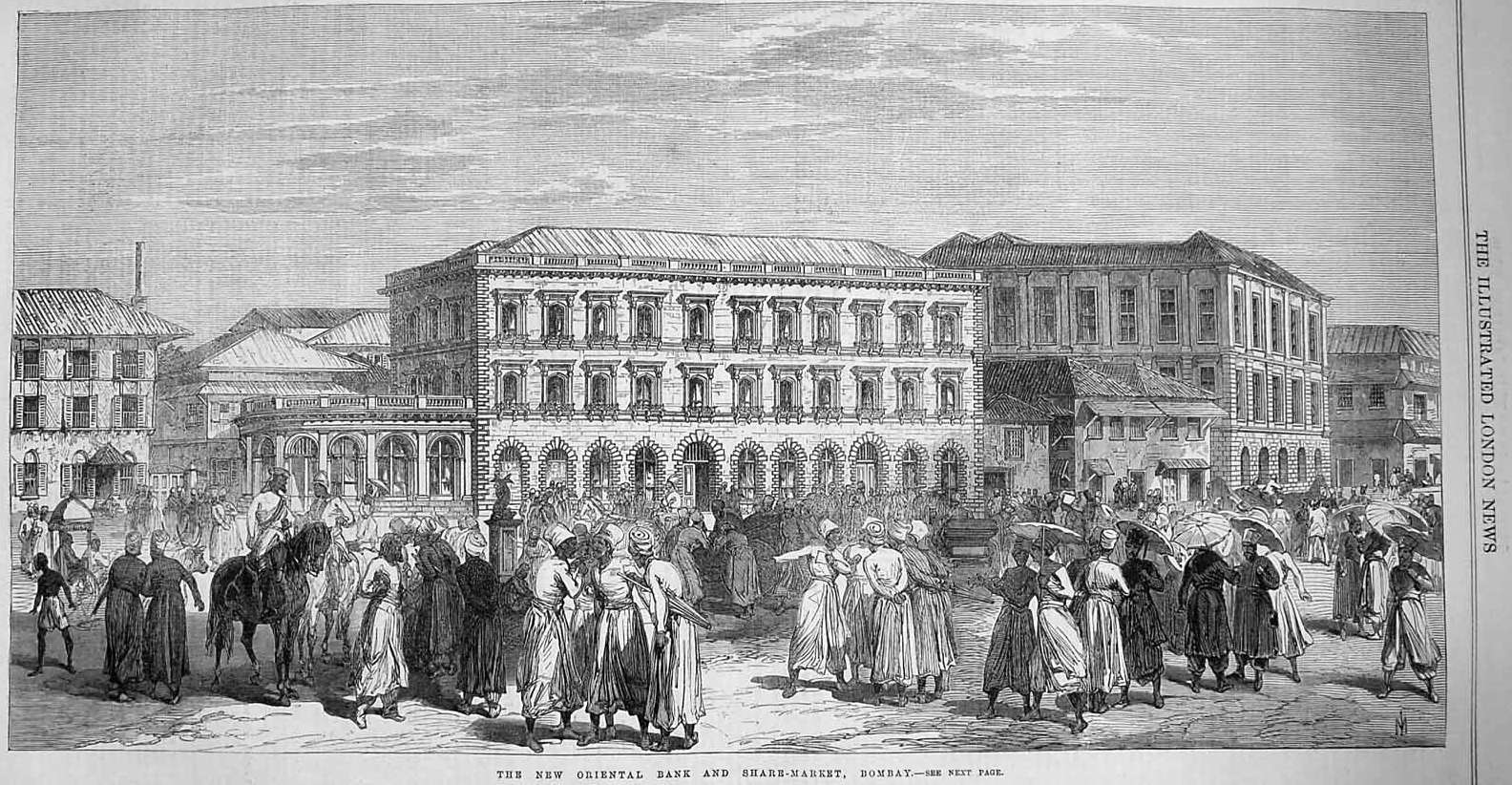 "The New Oriental Bank and Share Market, Bombay," from the Illustrated London News, 1865; very large scans of the *left half* and *right half* of this engraving Source: ebay, Oct. 2006